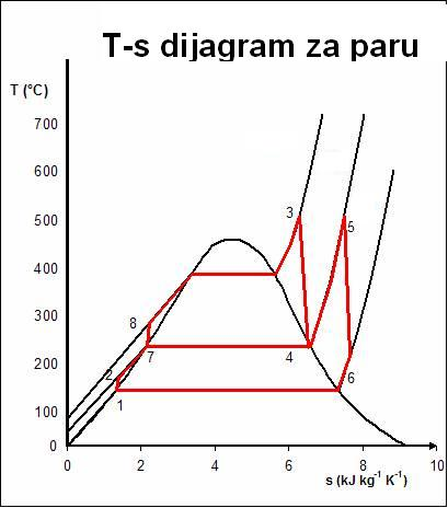 Created by me in Excel.